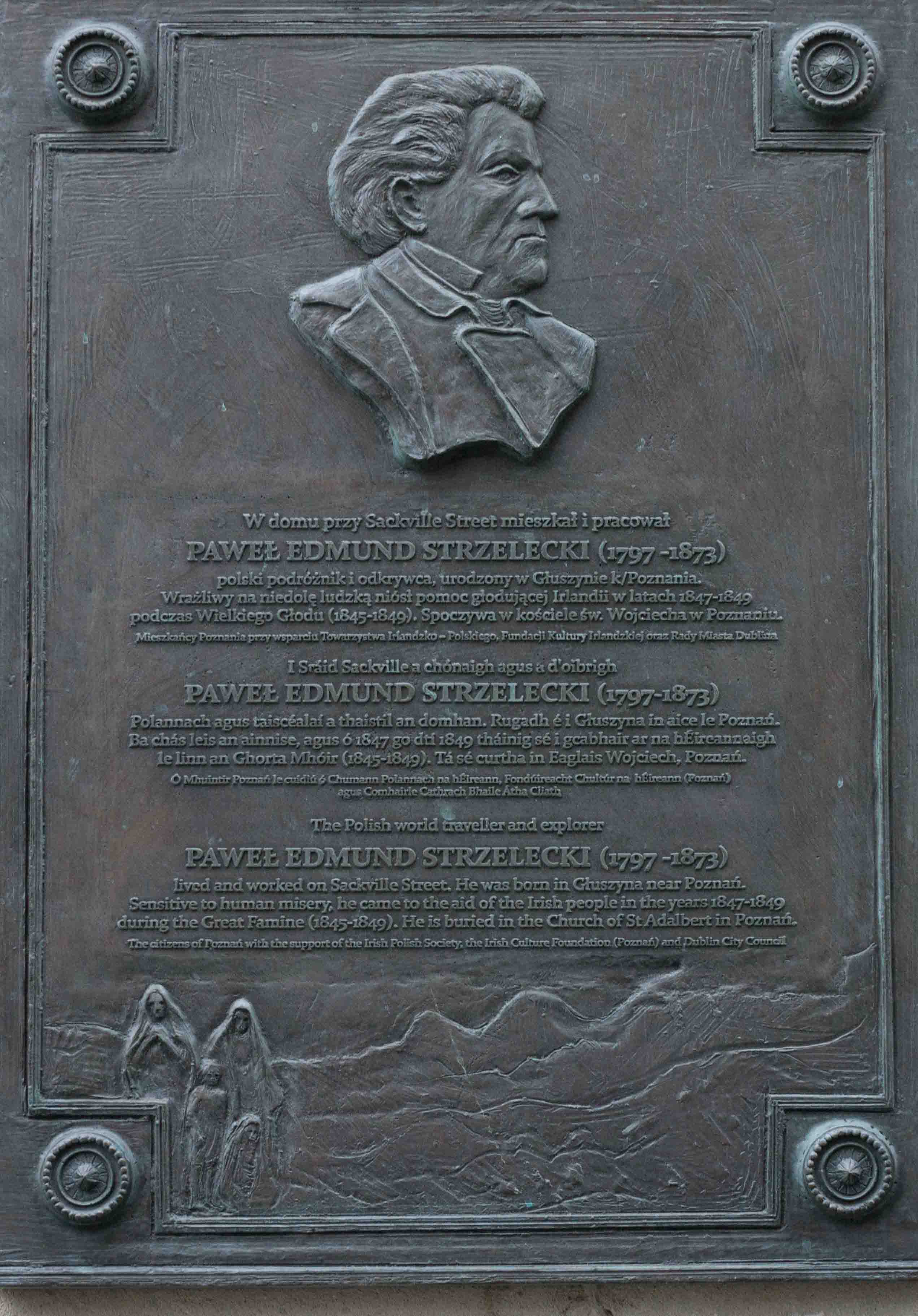 I have walked by this plaque at least once per week for about 40 years and never paid any attention to it as I had believed it to be business ‘Brass Plate’ for Clerys department store [no longer trading] Sir Paweł Edmund Strzelecki KCB CMG FRGS F.R.S. 24 June 1797 – 6 October 1873), also known as Paul Edmund de Strzelecki, was a Polish explorer and geologist who in 1845 also became a British subject. Towards the end of 1846, the Great Irish Famine was under way and the British Relief Association formed with the sum of £500,000 subscribed for the relief of the sufferers. Strzelecki was appointed an agent of the Association to superintend the distribution of supplies in County Sligo and County Mayo. He devoted himself to his task with success, though for a time incapacitated by famine fever. In 1847/48 he continued his work in Dublin as sole agent for the association. In recognition of his services he was made a Companion of the Order of the Bath (CB) in November 1848. He helped impoverished Irish families to seek new lives in Australia. He was also active in helping injured soldiers during the Crimean War (being personally acquainted with Florence Nightingale). He arrived back to London in 1849, where he was made a Fellow of the Royal Geographical Society and awarded a Gold medal for "exploration in the south eastern portion of Australia". The society still displays his huge geological map of New South Wales and Tasmania for public viewing. He was also made a Fellow of the Royal Society. He gained widespread recognition as an explorer as well as a philanthropist. Strzelecki died in 1873 in London of liver cancer and was buried in Kensal Green Cemetery. In 1997 his remains were transferred to the crypt of merit of St. Wojciech Church in his home town of Poznań, Poland.